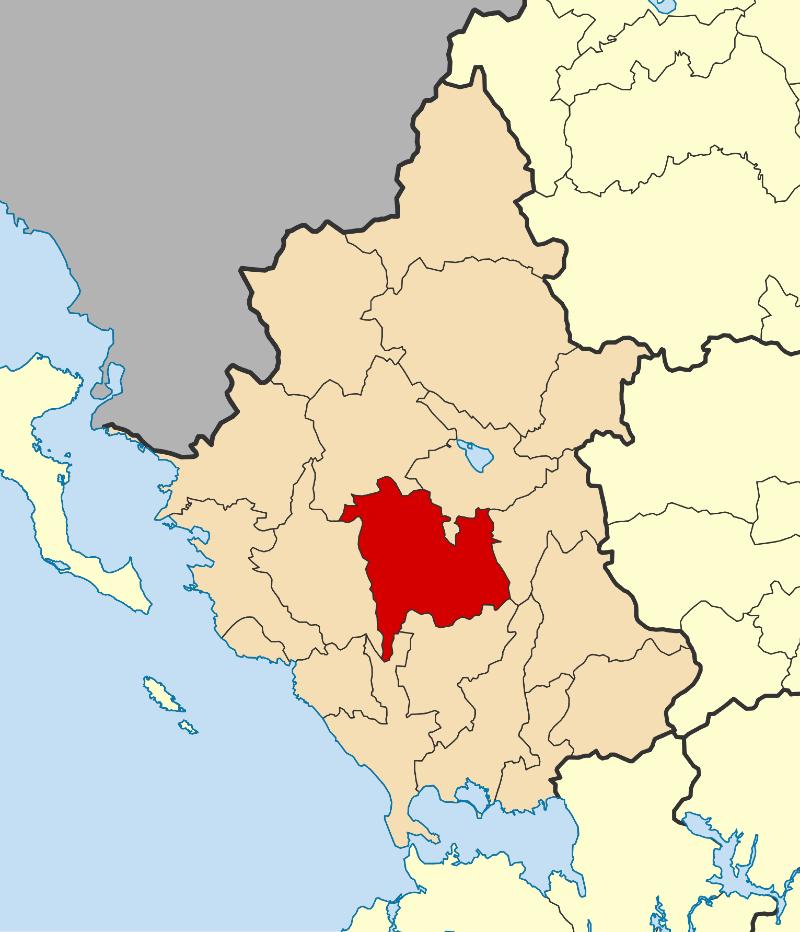 Locator map for Dodoni municipality in Greek region Epirus (2011)